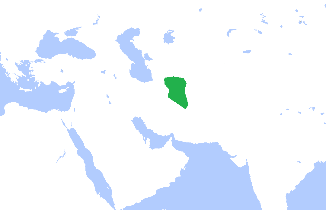 sabdasdsacsacscasc